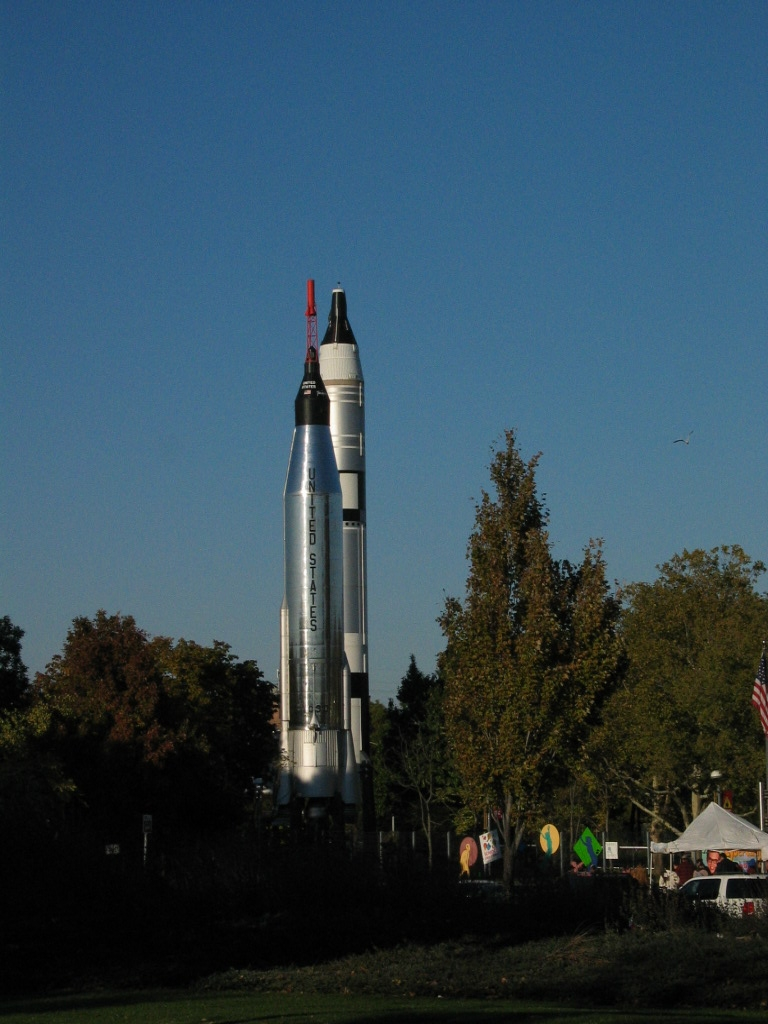 Mockup spaceship near the New York Hall of Science